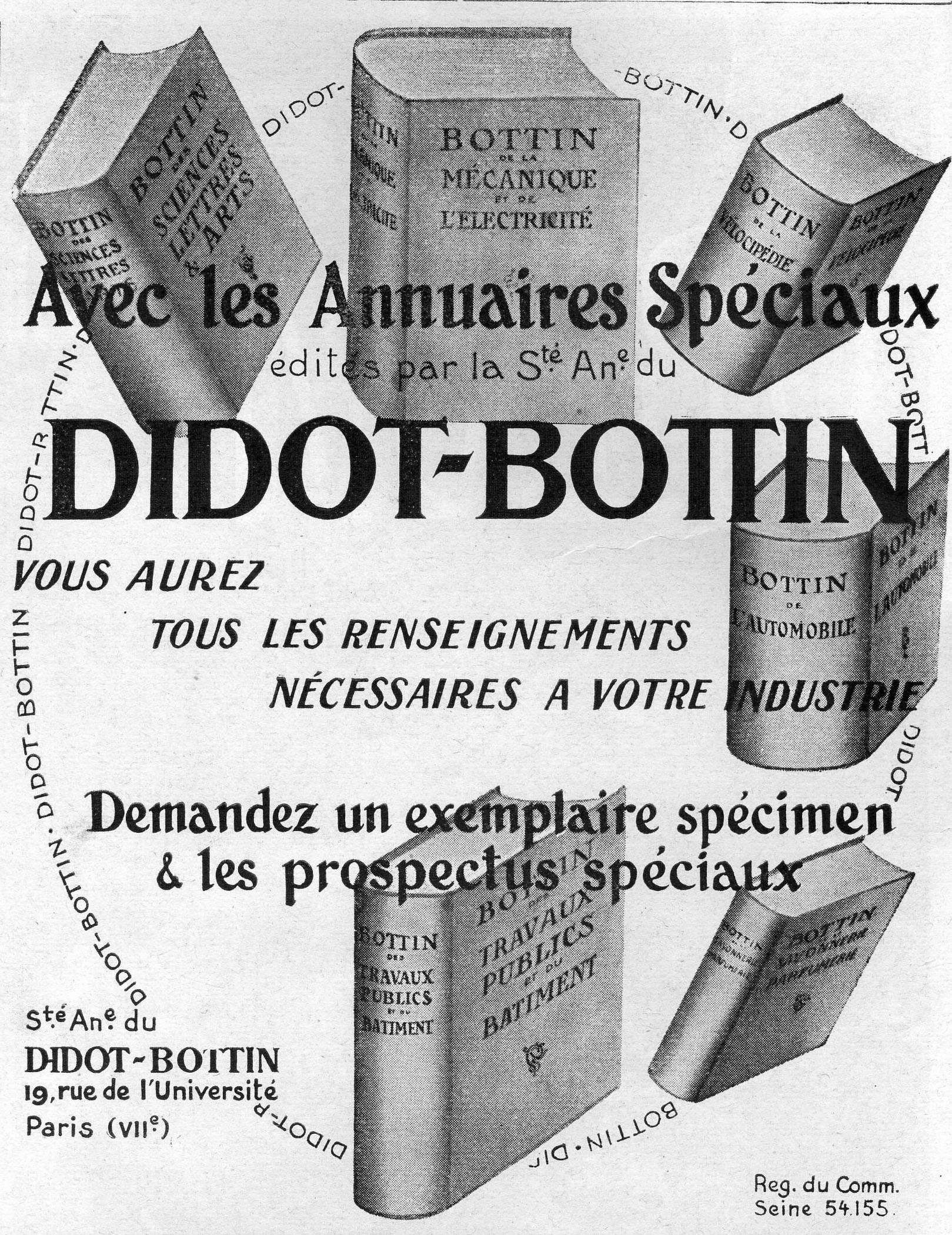 Didot-Bottin advertisement of 1924